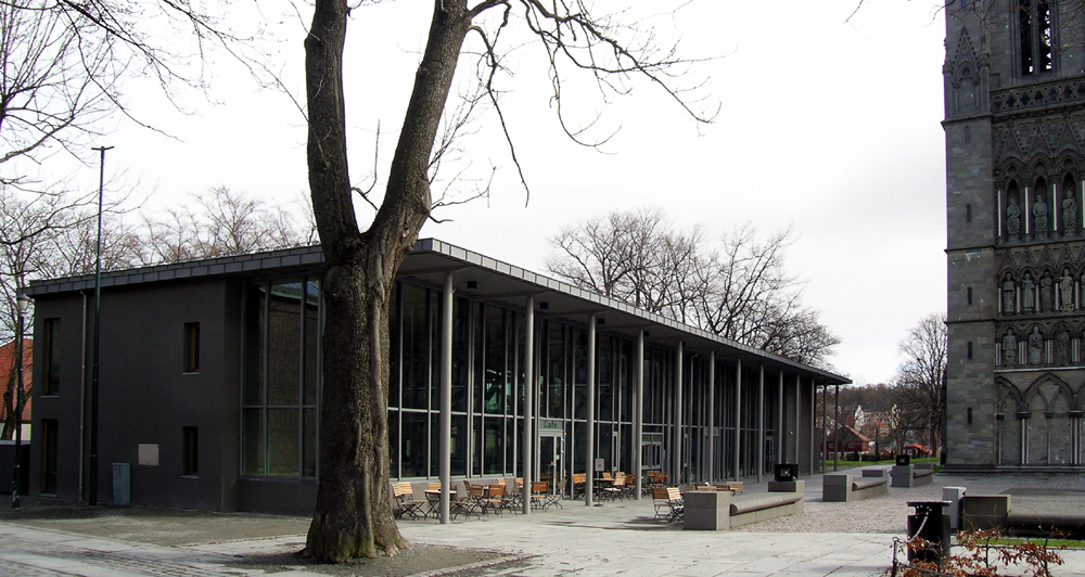 Visitor's Center, Nidarosdomen, Trondheim, Norway. Built 2006. Architects: Eggen Arkitekter.